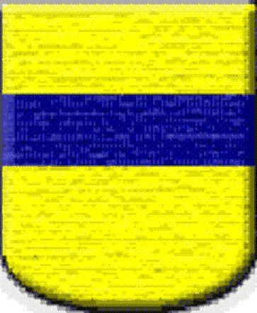 Arms of Vidaure